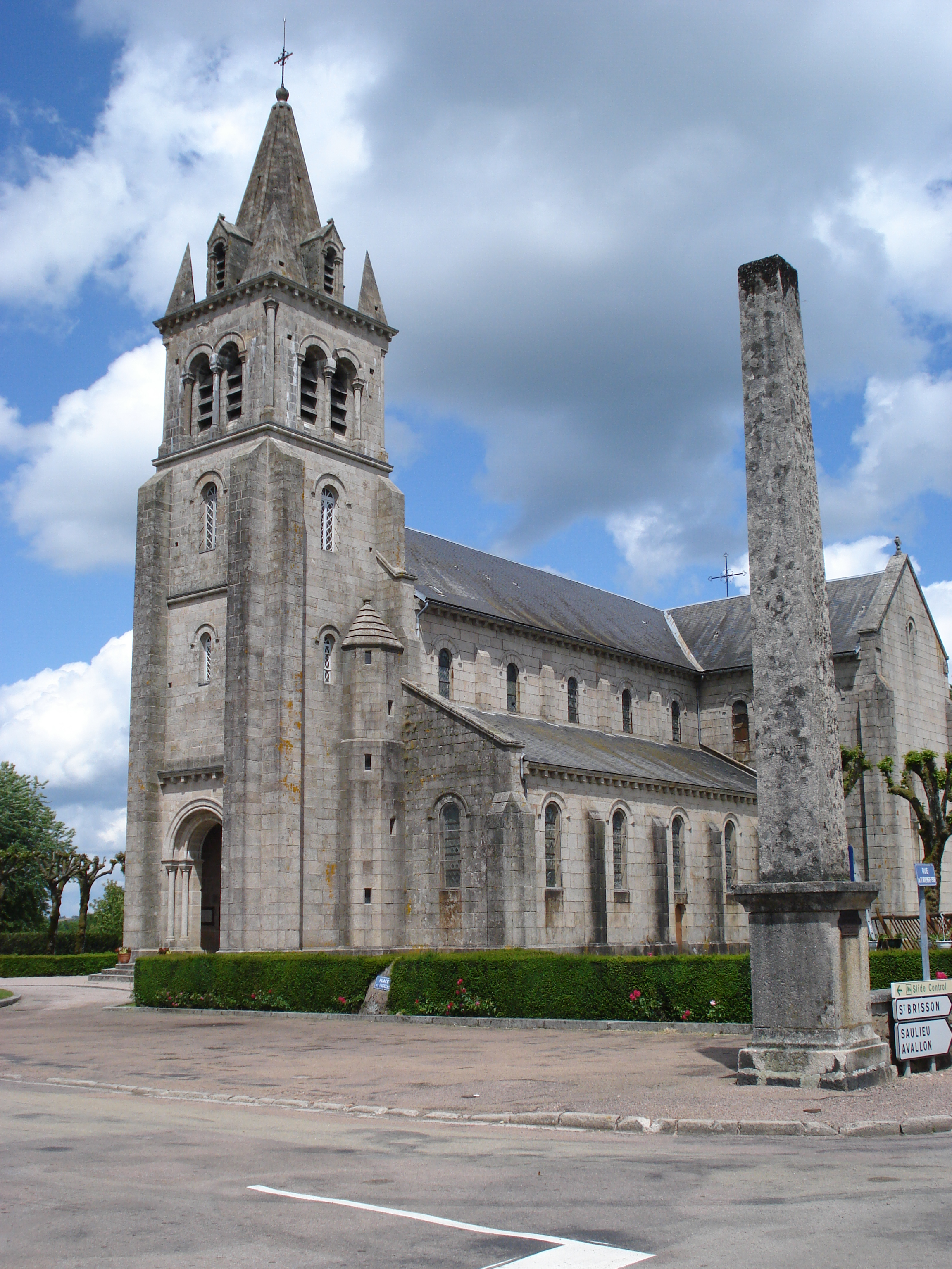 Dun-les-Places (Morvan, dpt Nièvre, Fr), l'église.